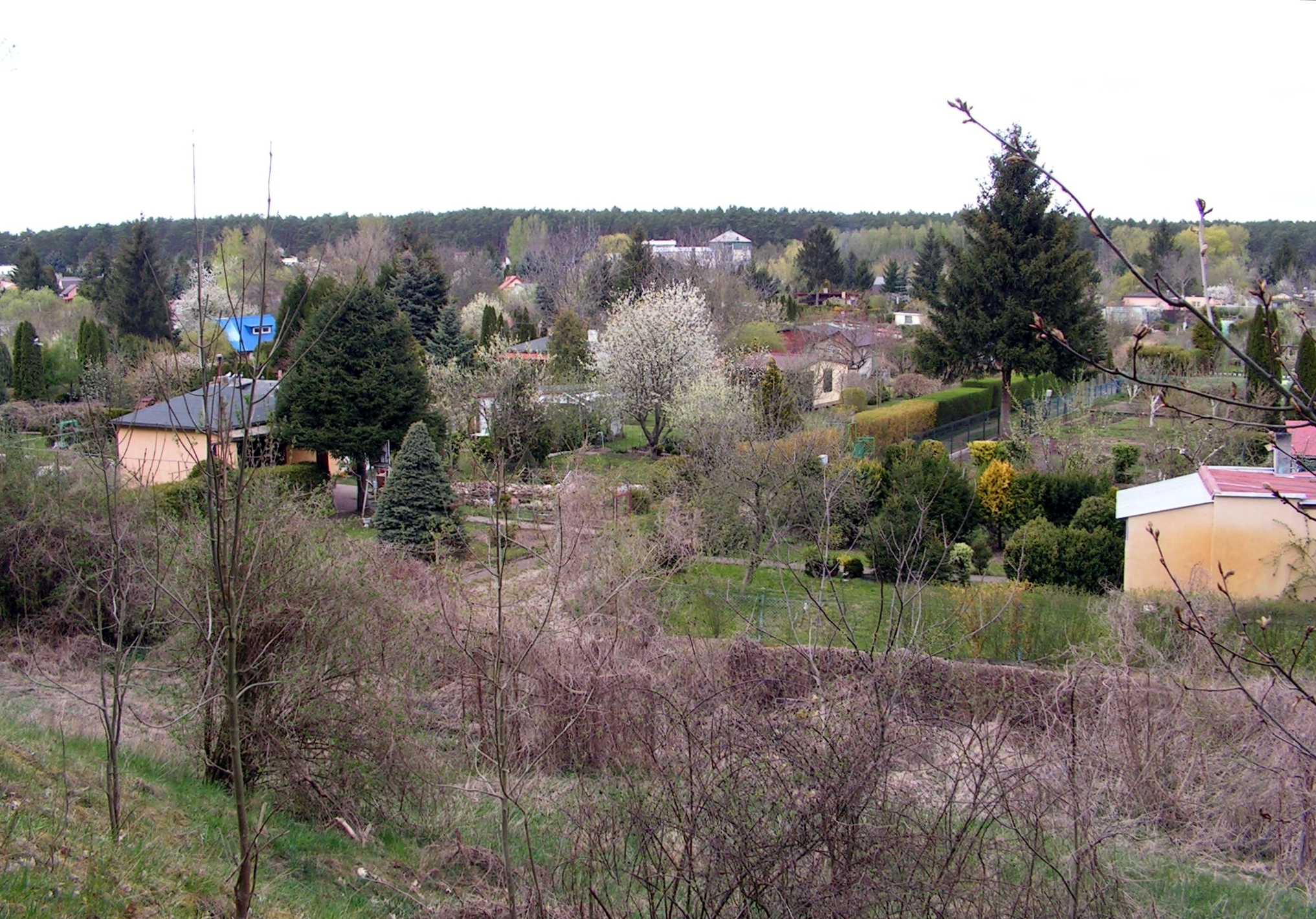 Rodzinne Ogrody Działkowe Przyszłość (Familiar Garden Lots named Future) on the Świech settlement in Włocławek.